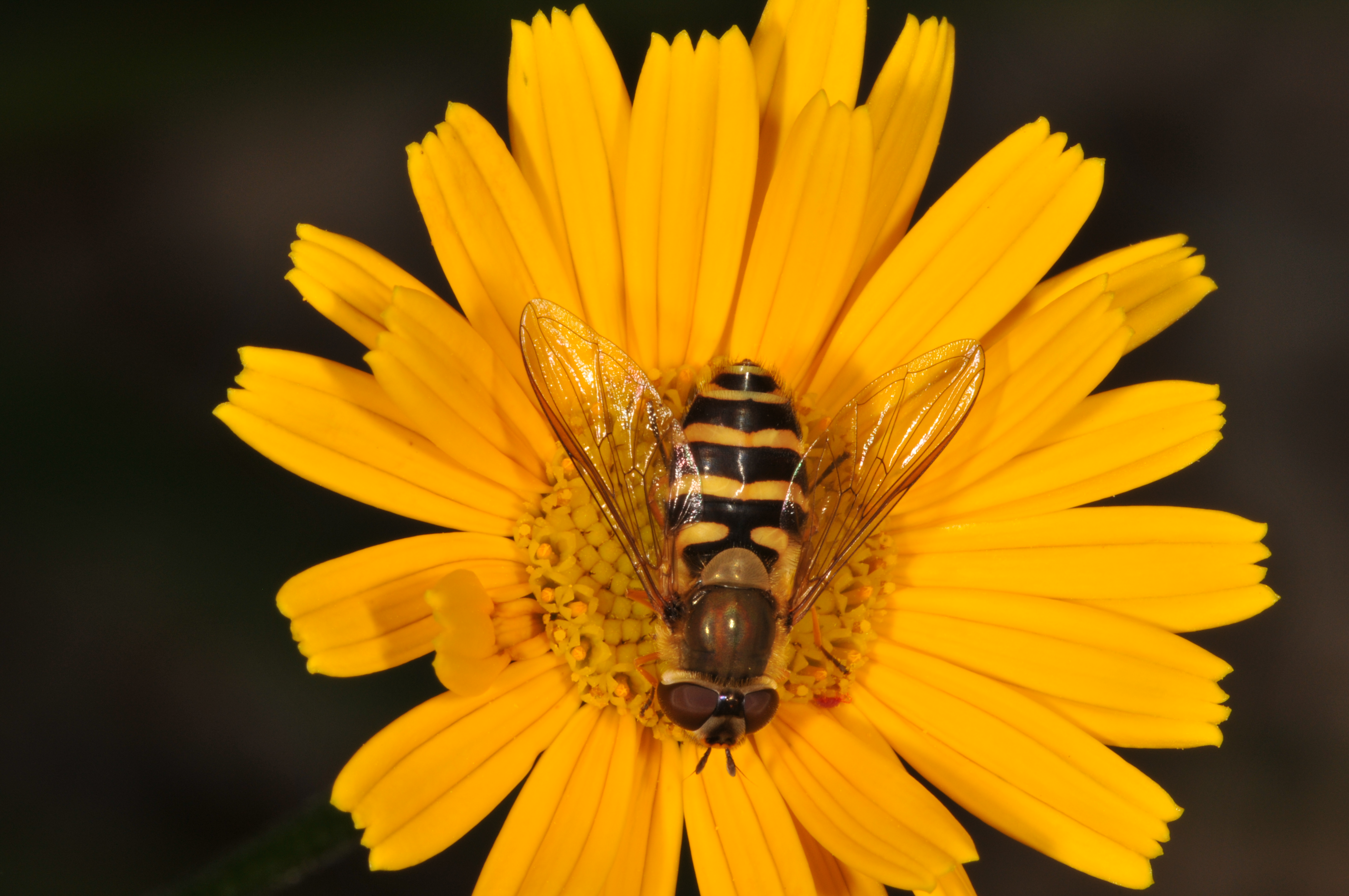 Syrphidae, Croatia, Istria, Nature park Učka